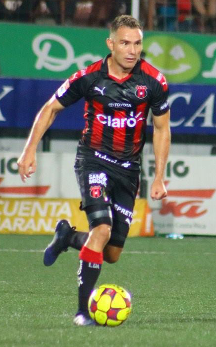 Kenner Gutiérrez playing for L. D. Alajuelense on April 1st, 2017.